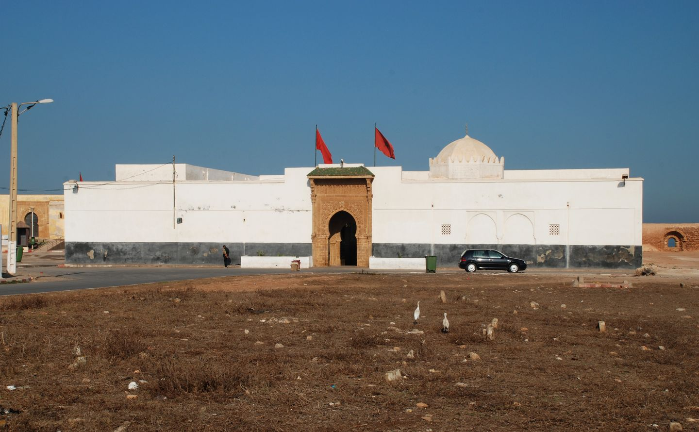 Salé, Morocco, tomb of Sidi Ahmed ben Ashir